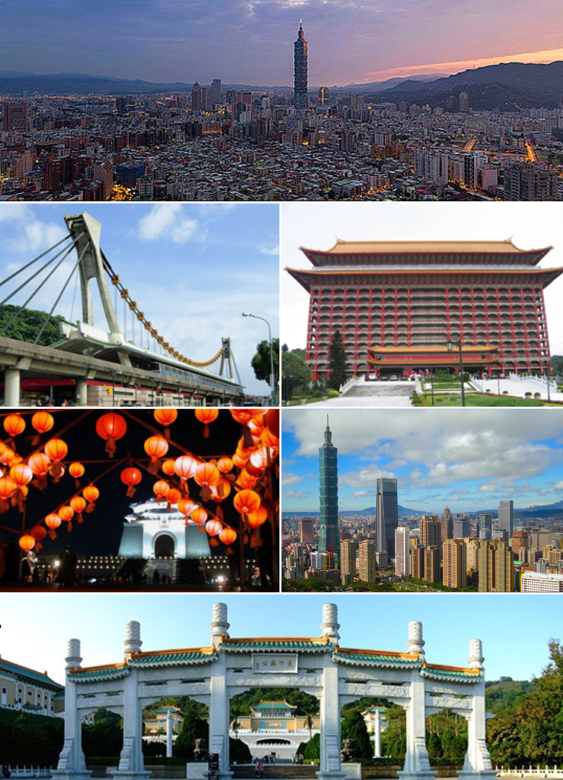 Montage of Taipei City.